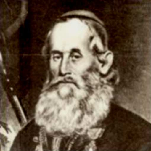 Alexandru Şterca Sulutiu de Kerpenyes(1794–1867), Archbishop of the Archdiocese of Făgăraş şi Alba Iulia of the Romanian Greek Catholic Church from 1850 to 1867.